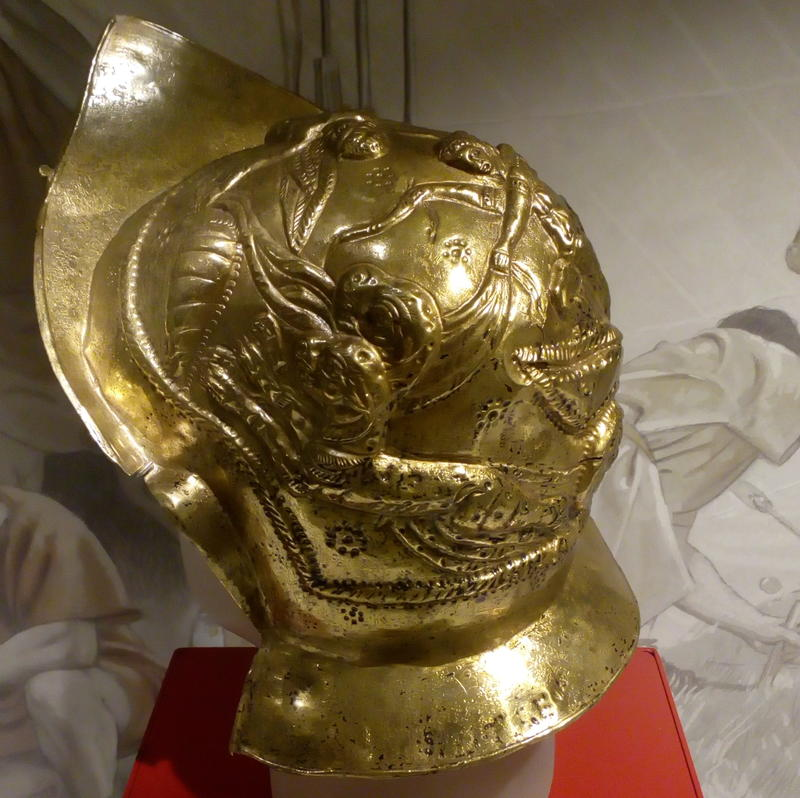 Bronze Roman helmet dating to 80–100 AD that was discovered at the site of a Roman fort in Newstead, near Melrose in Roxburghshire, Scotland in 1905. It is now part of the Newstead Collection at the National Museum in Edinburgh. The copyright release of this picture was given in an email from the author to Victuallers on Friday, 24 September, 2010 12:23